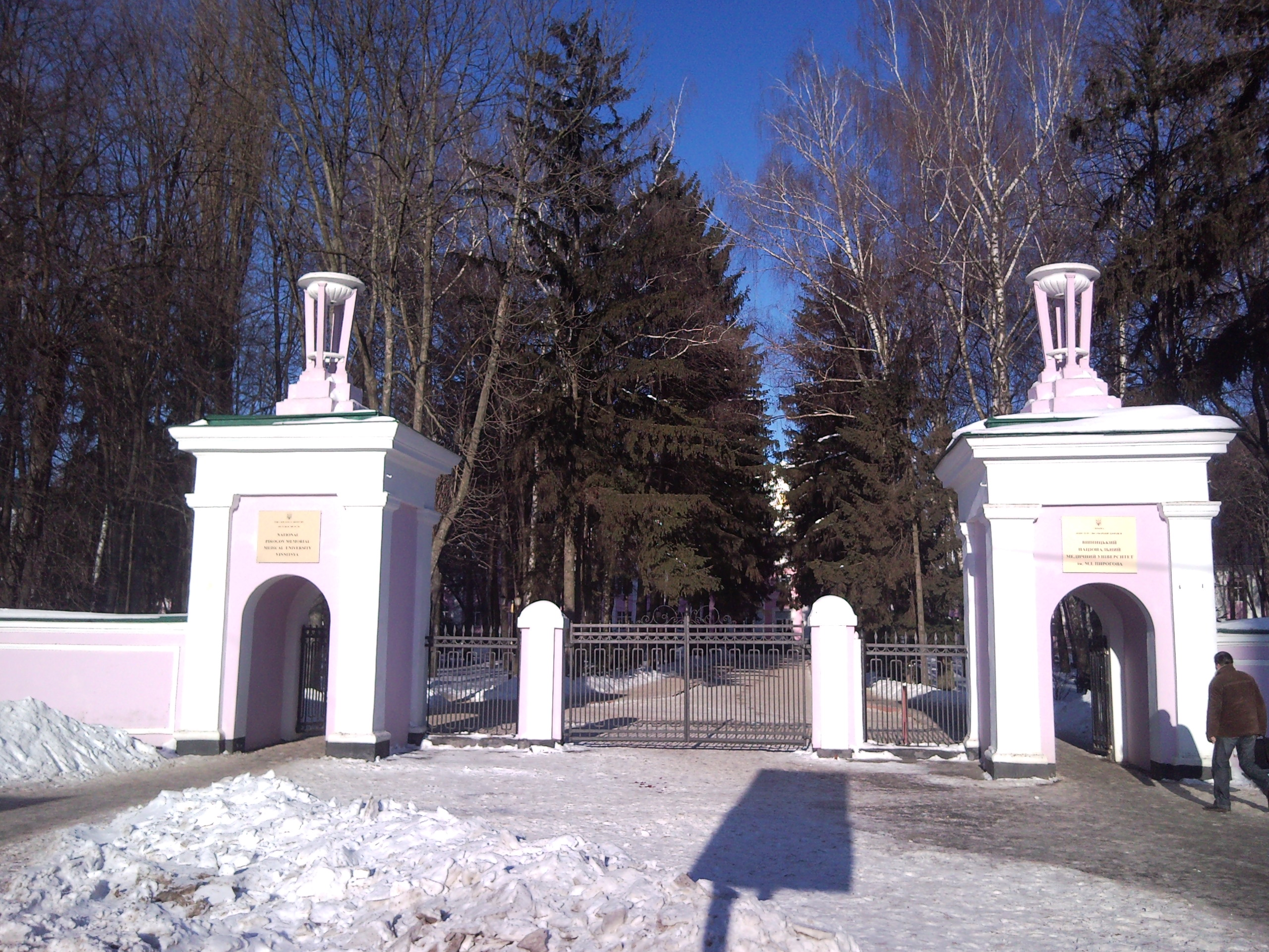 Vinnytsia National Medical University Entrance